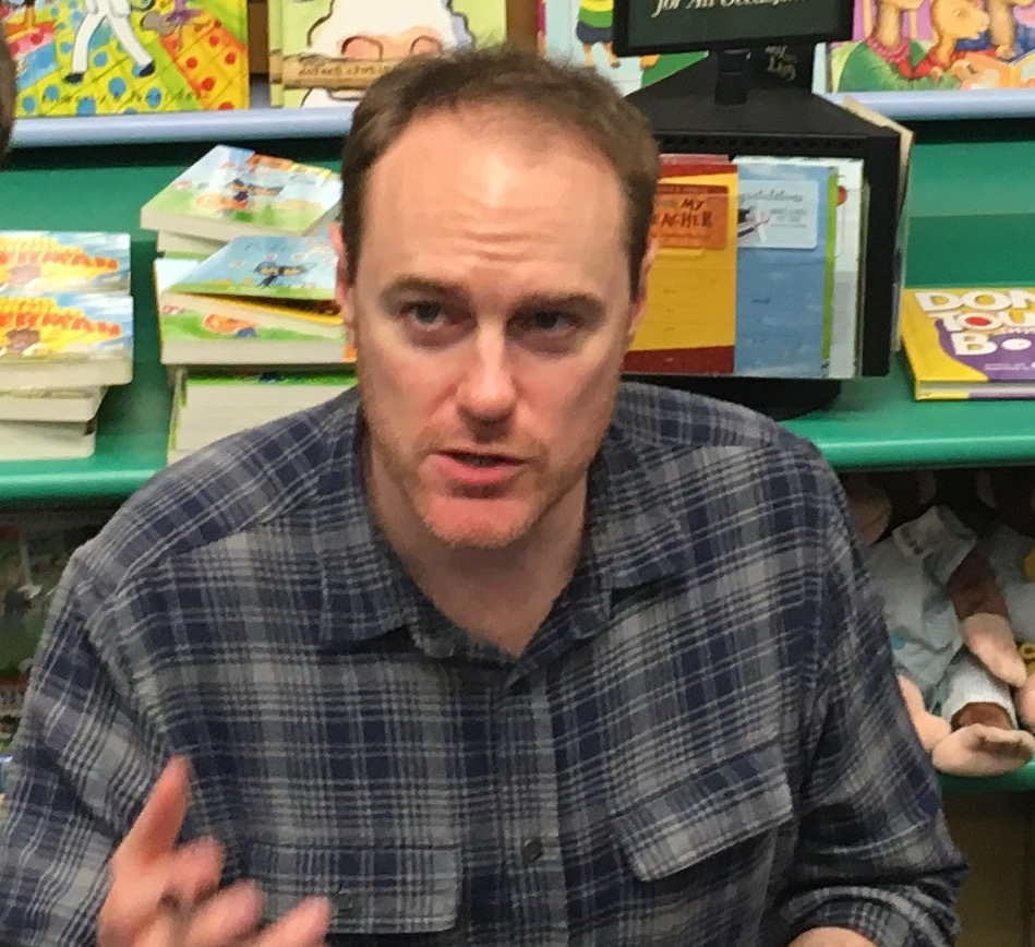 James Riley, an American novelist and author of the Story Thieves series.